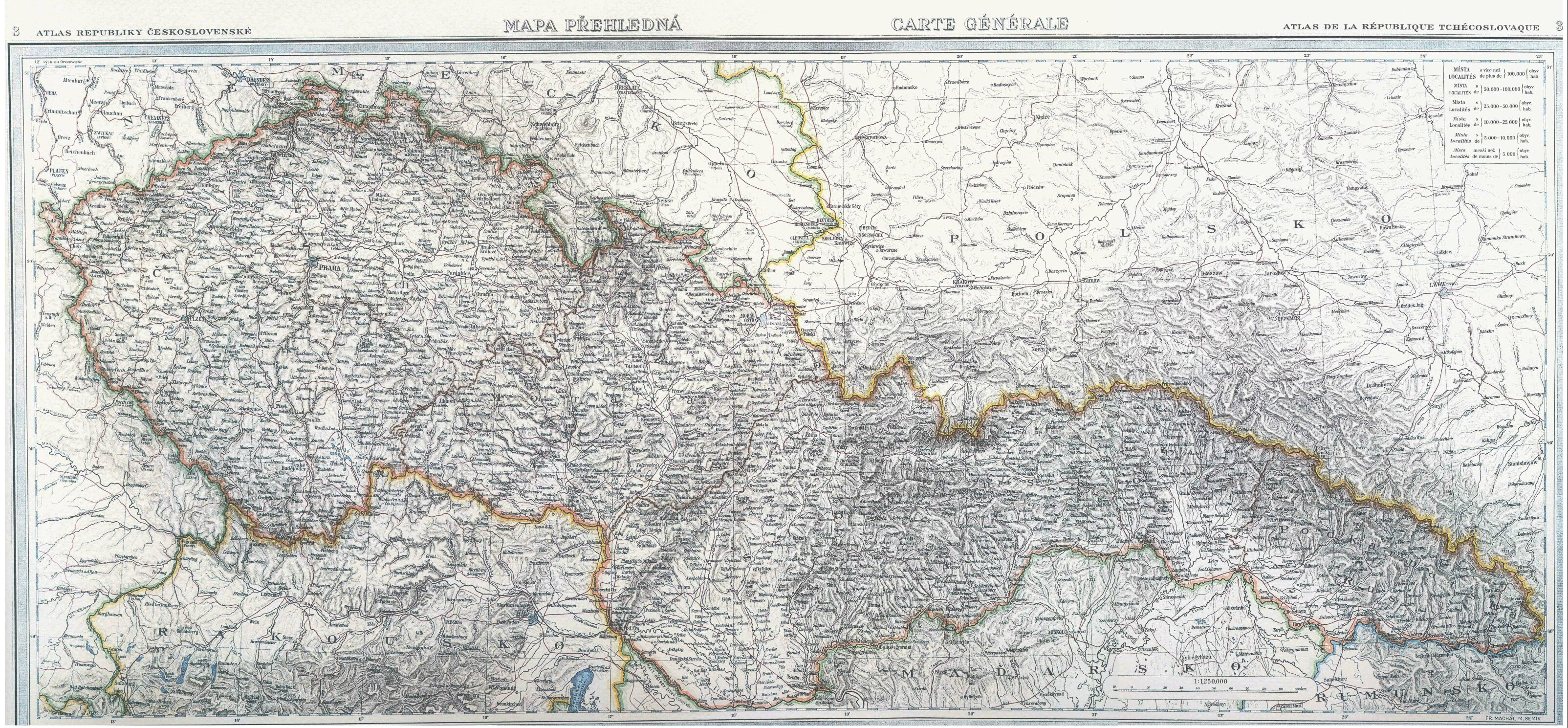 Map of Czechoslovakia 1935